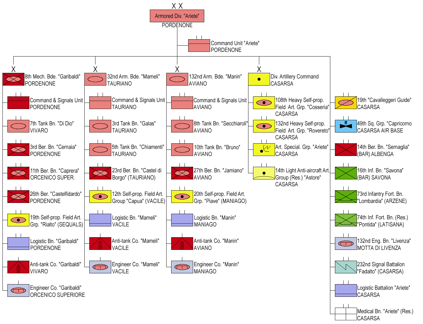 Structure of the Italian Army's Armored Division "Ariete" in 1977